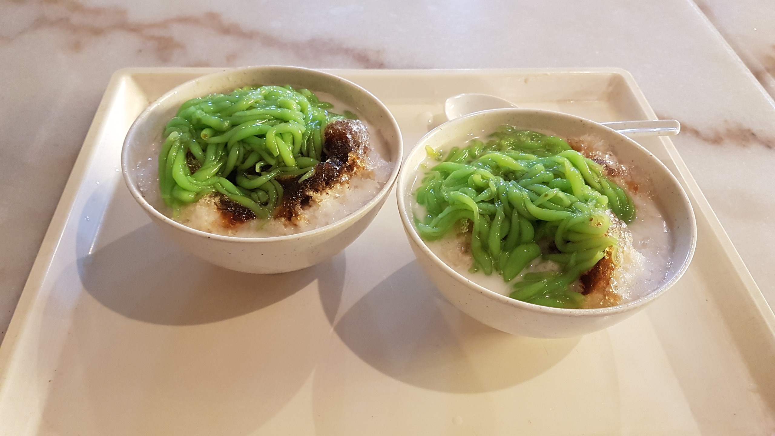 Chendol at the Cendol Melaka shop at Changi Village food centre, Changi, Singapore.